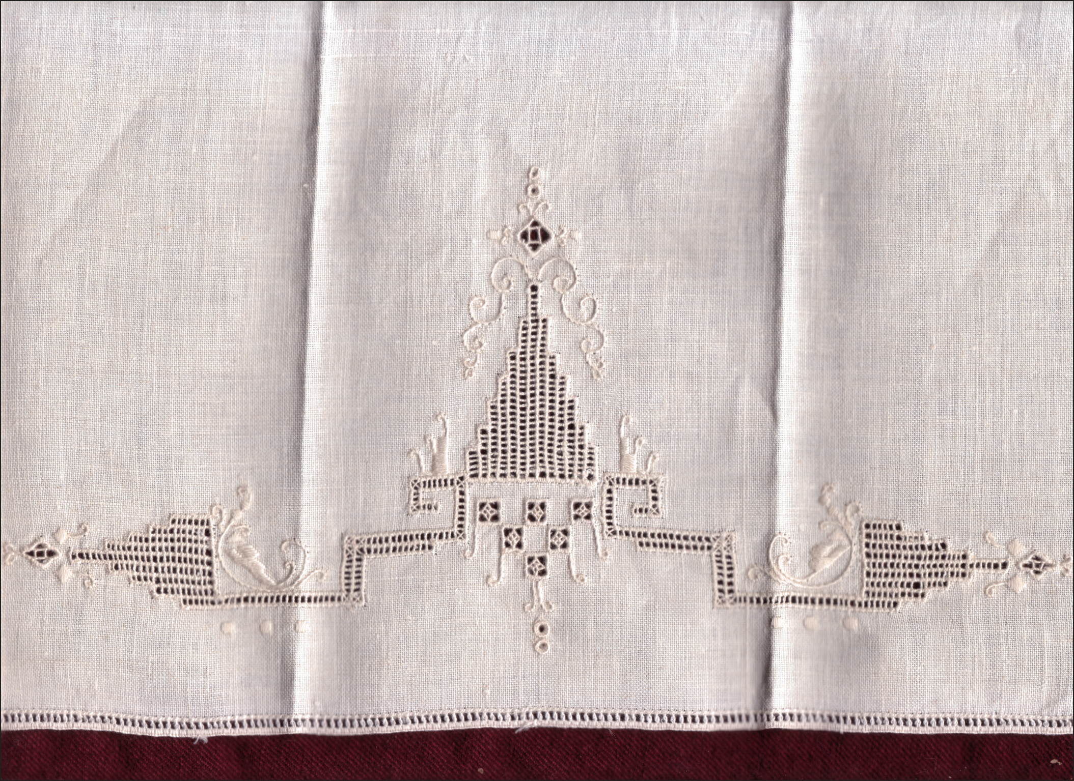 Linen towel with drawn threadwork and whitework embroidery